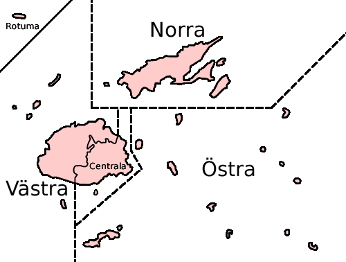 Map of the divisions of Fiji, named in swedish. Modified version of Image:Fiji divisions named.png, original made by User:Golbez. Swedish version made by User:Daedalus.